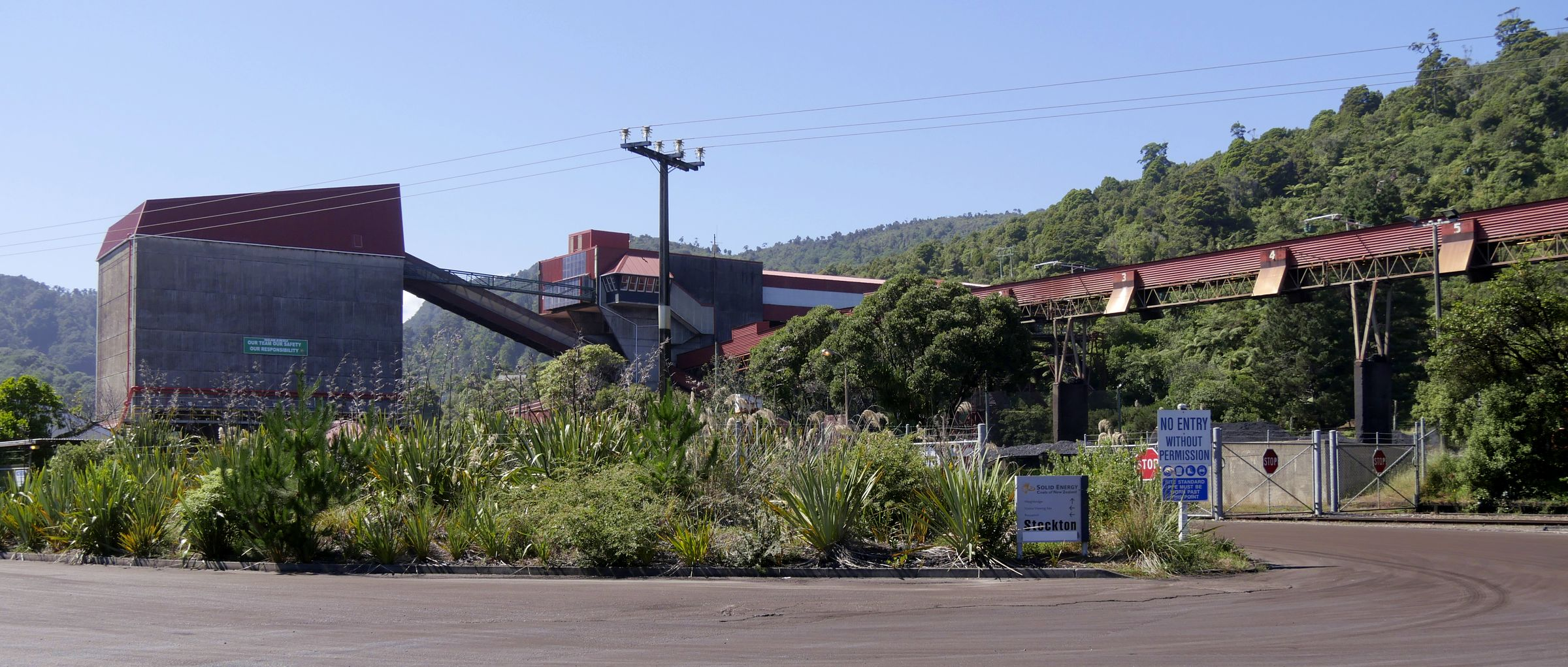 Solid Energy New Zealand, Coal plant, Stockton, Buller District, West Coast Region, South Island, New Zealand